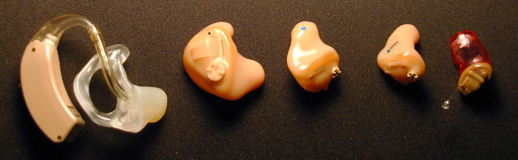 Traditional hearing aid designs.